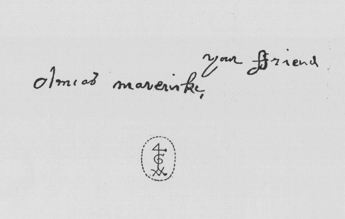 Signature and seal of Amias (Cole) Thomson Maverick, wife of Massachusetts colonist Samuel Maverick, in a letter from her to Mr. Robert Trelawney and sent from her home on Noddle's Island (now the site of Logan Airport). The letter was addressed to "Mr. Robert Trelawny, merchant, at Plymouth, England." Signature and seal originally printed in the Trelawney Papers, Vol. III of the Maine Historical Society, Second Series, Portland, Maine, 1884.